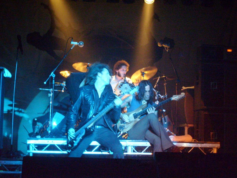 Extreme - Live in Birmingham 2008